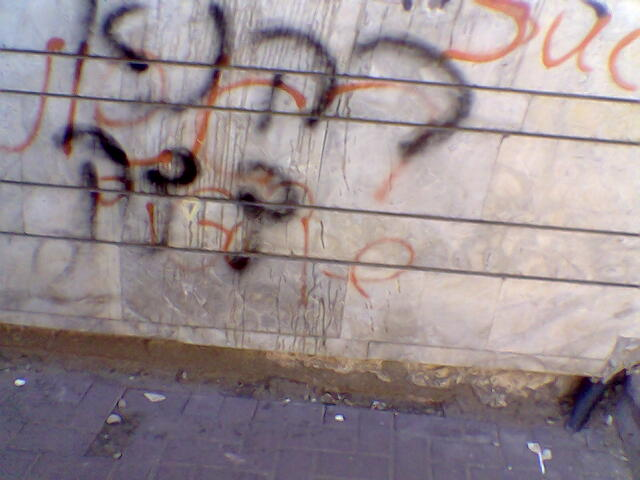 Graffiti on a wall in Herzliya, Hebrew: "Kahane was just".